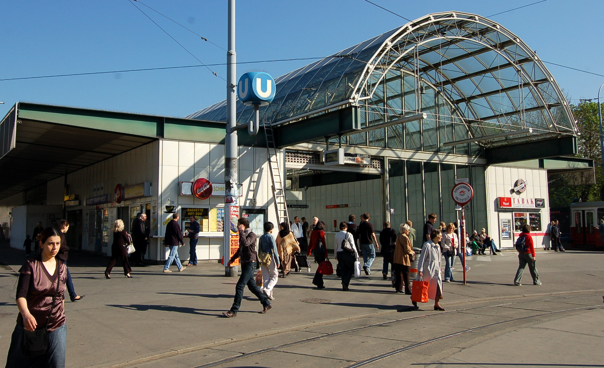 Vienna Underground station Westbahnhof (U3, U6 lines) at Gürtel